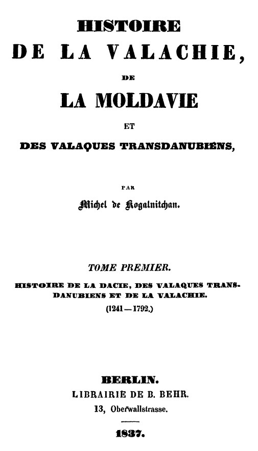 First page of the book Histoire de la Valachie, de la Moldavie et des valaques transdanubiens, by Mihail Kogălniceanu, Librairie de B. Behr, Berlin, 1837